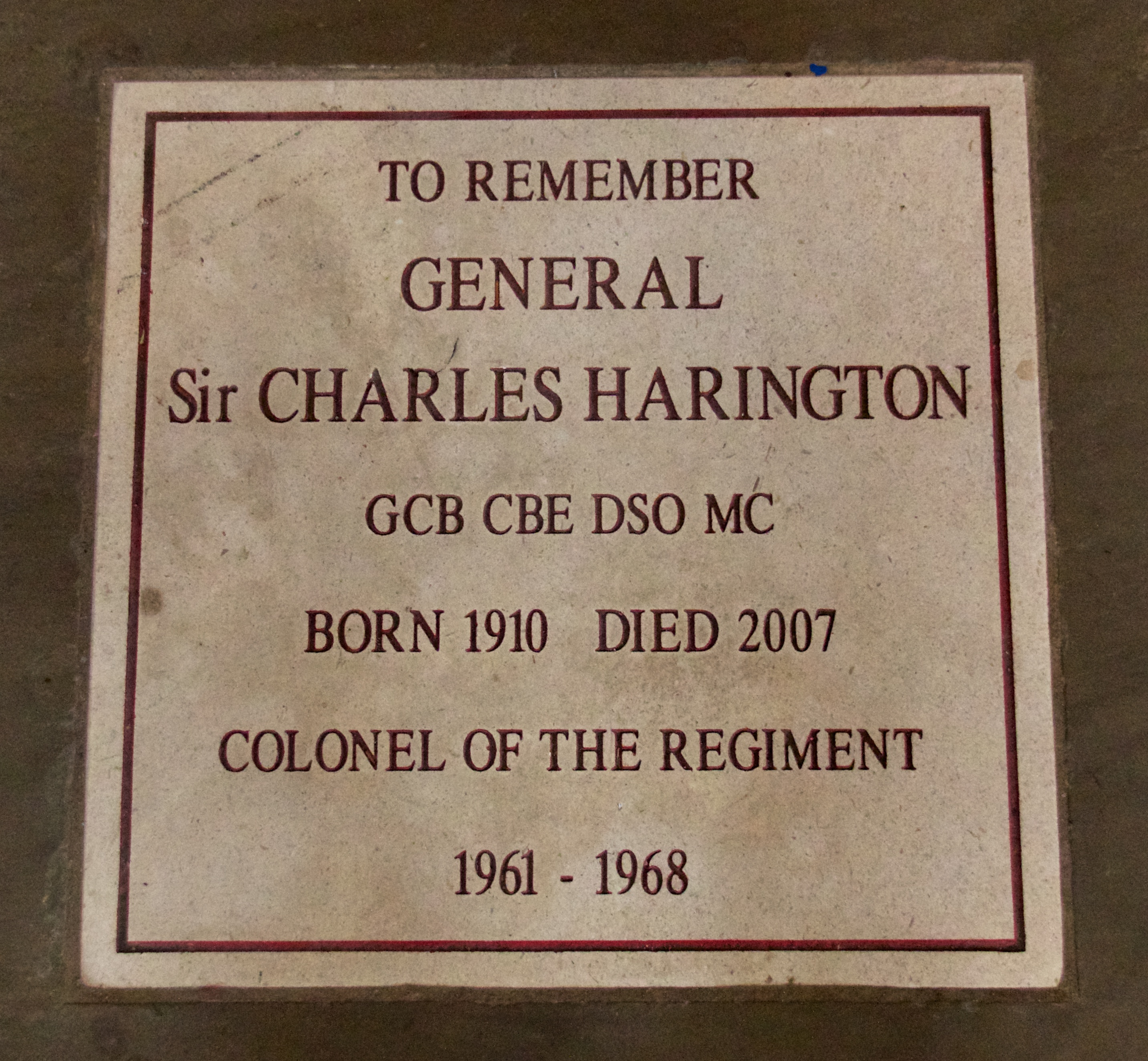 Memorial at Chester Cathedral. Reads "To remember General Sir Charles Harington GCB CBE DSO MC Born 1910 Died 2007. Colonel of the Regiment 1961-1868." Taken as part of Wikipedia Takes Chester